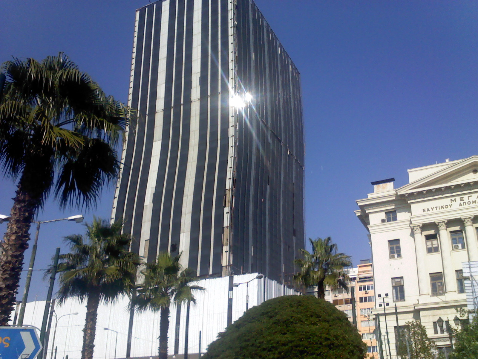 Pireas Towel